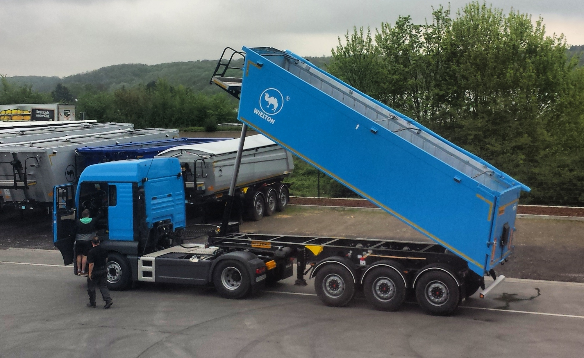 Tipper semi-trailer for bulk cargo.